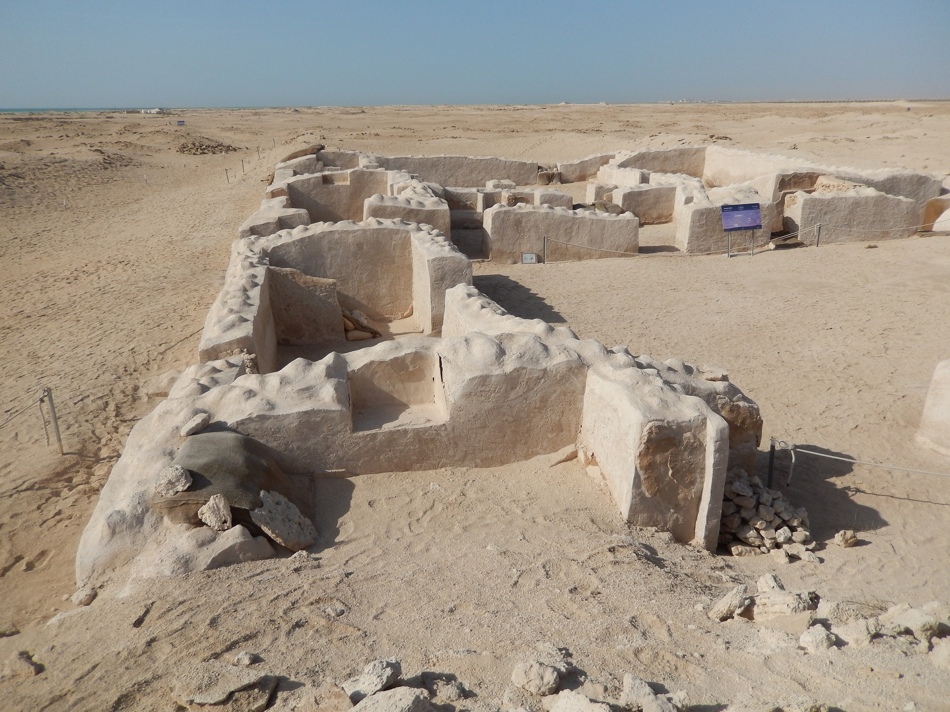 A partially restored section of the ruined city of Zubarah, northern Qatar. Zubarah is Qatar’s most substantial archaeological site.